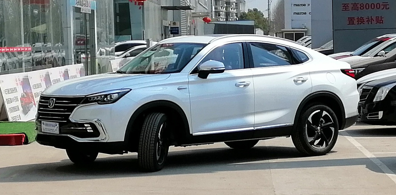 Chang'an CS85 photographed in Hefei, Anhui province, China.